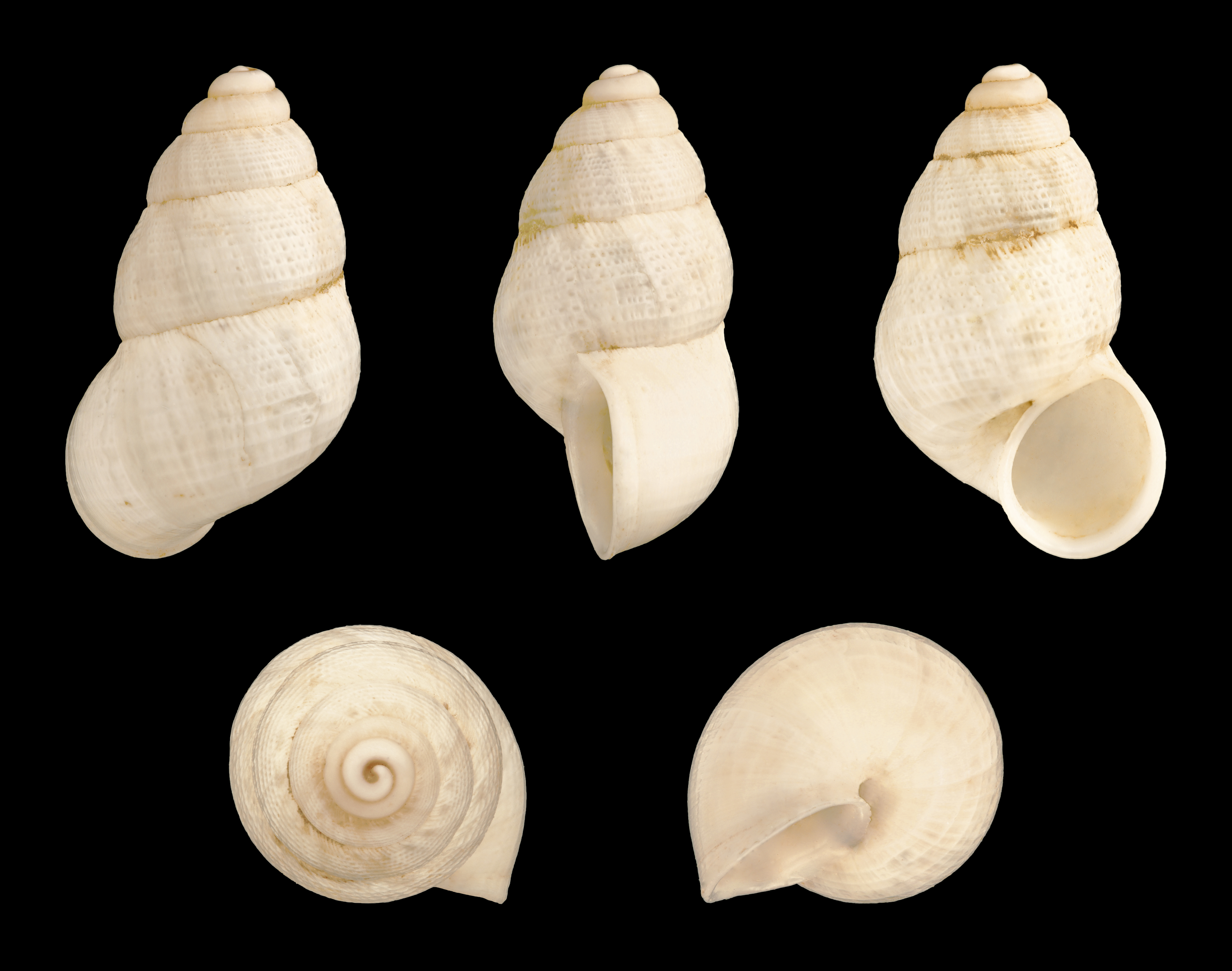 Length 1.6 cm; Originating from Legzire, ca. 10 km north of Sidi Ifni, Morocco; Shell of own collection, therefore not geocoded. Dorsal, lateral (right side), ventral, back, and front view.